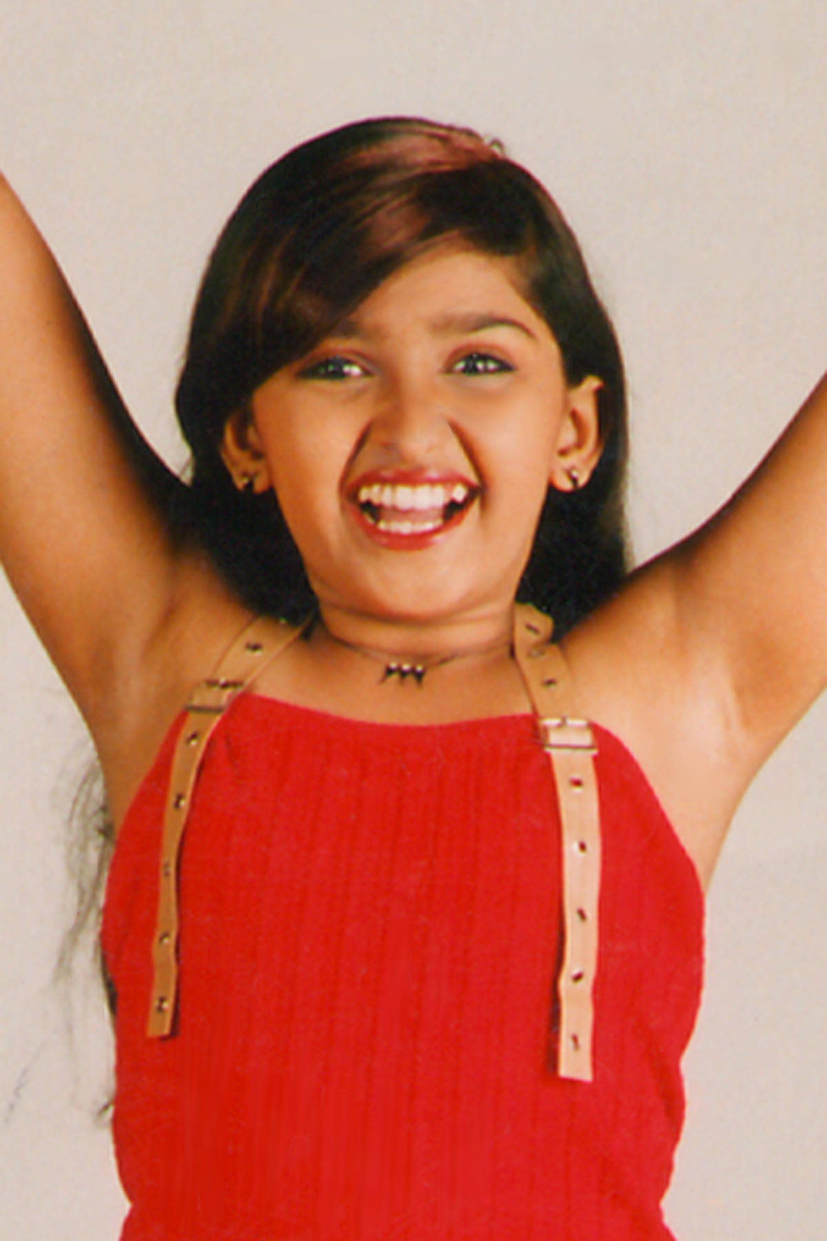 Sanusha Cine Artist